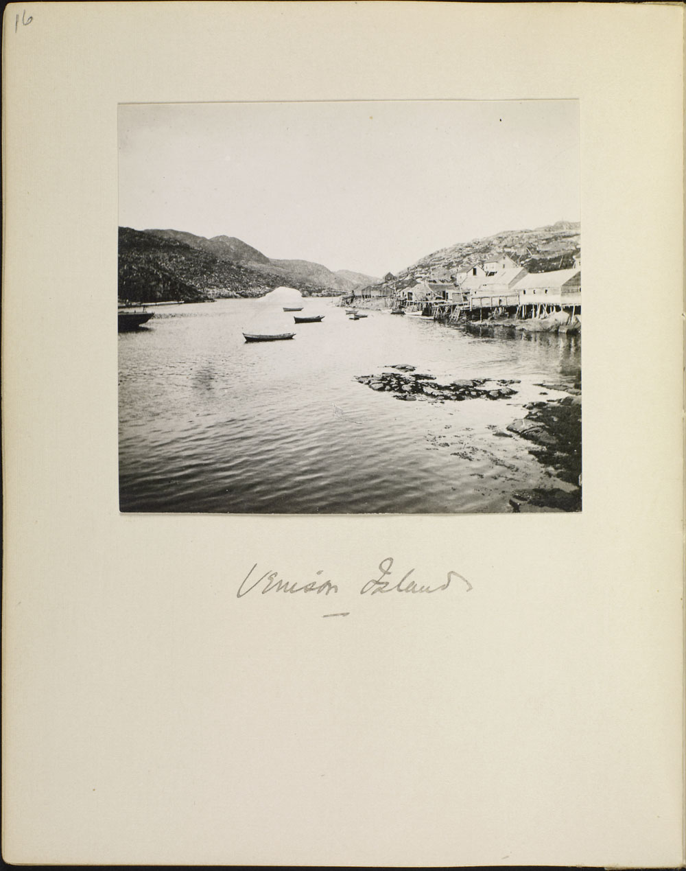 Venison Island in August 1913